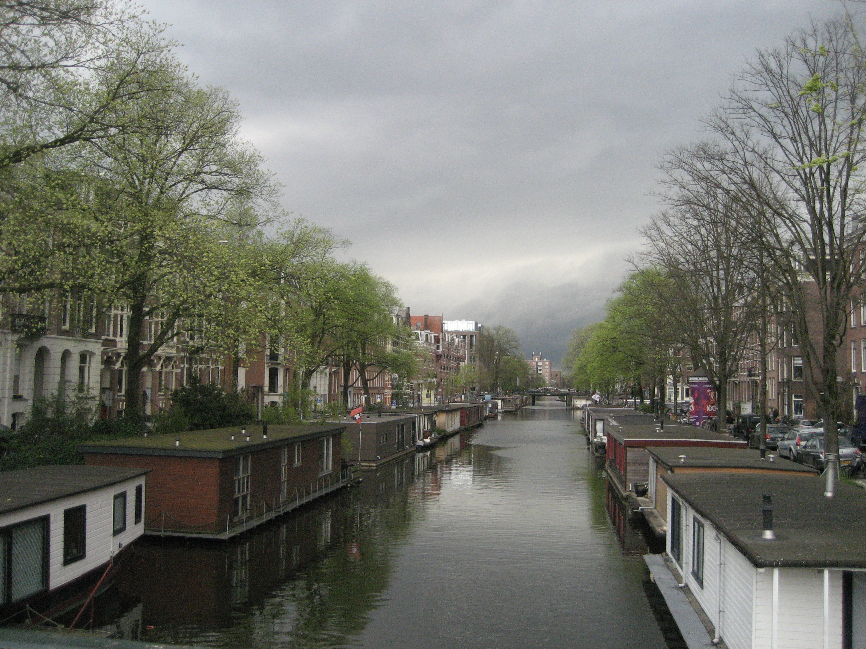 Jacob van Lennepkade, Amsterdam (The Netherlands). Cloudy day in April 2014